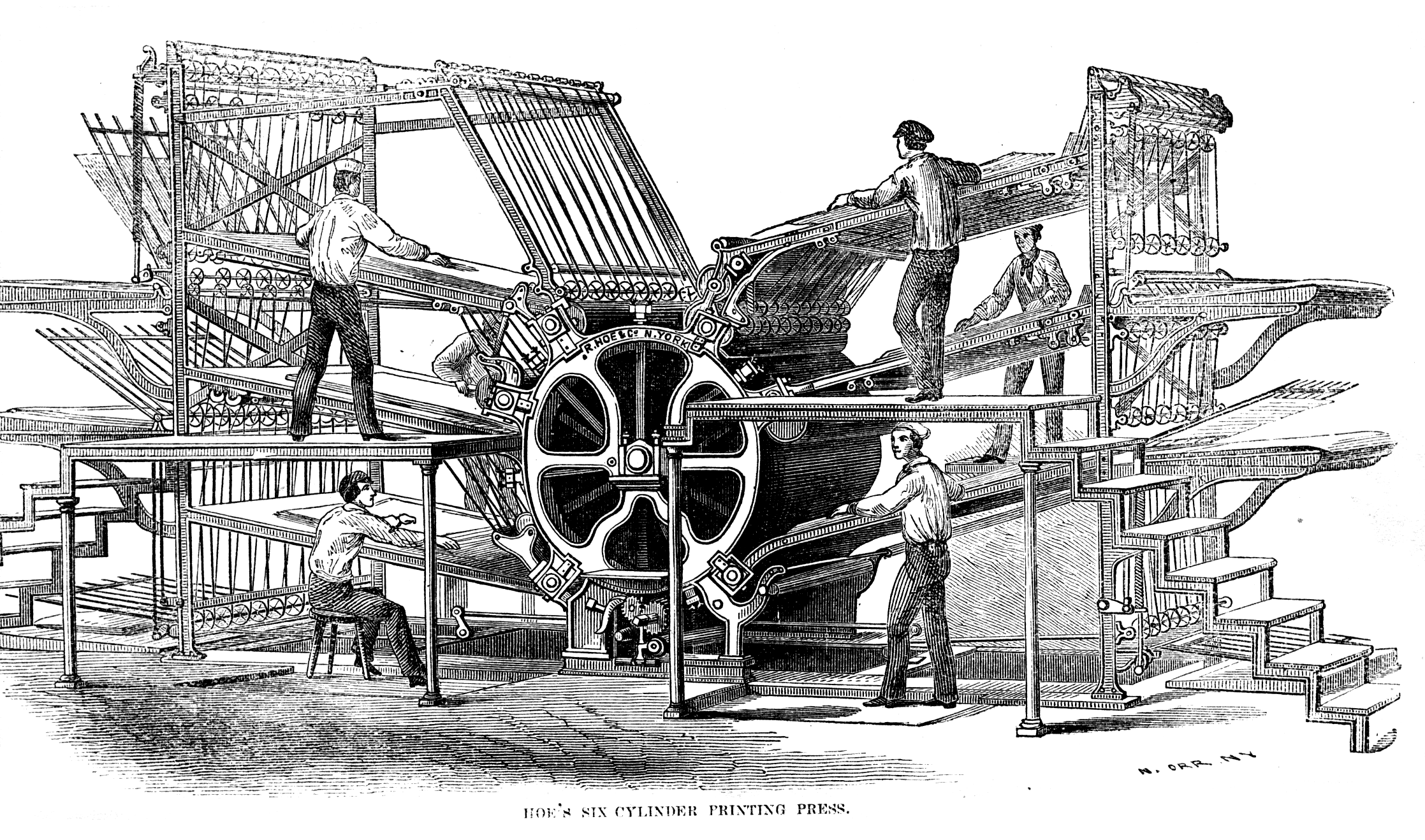 Richard March Hoe's printing press—six cylinder design